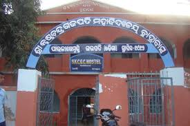 Known as the skcg college main hostel.